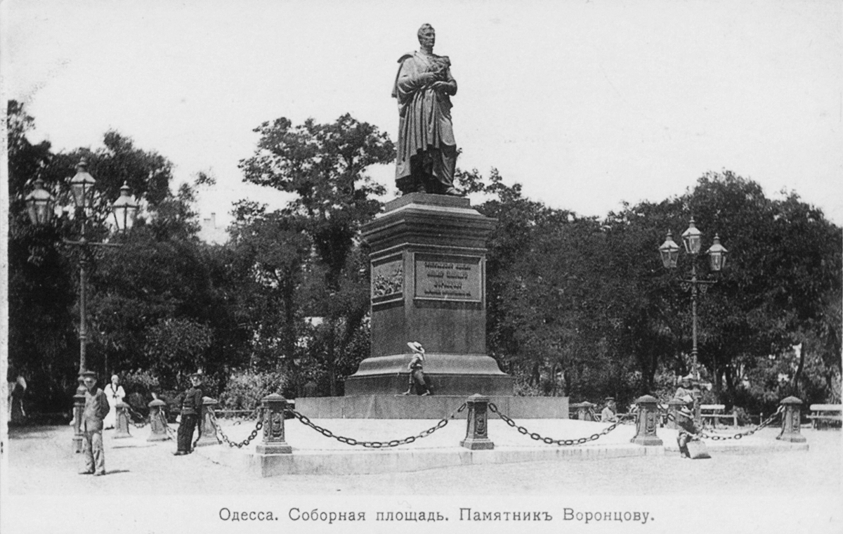 Monument of Vorontsov, Sobor Square, Odessa